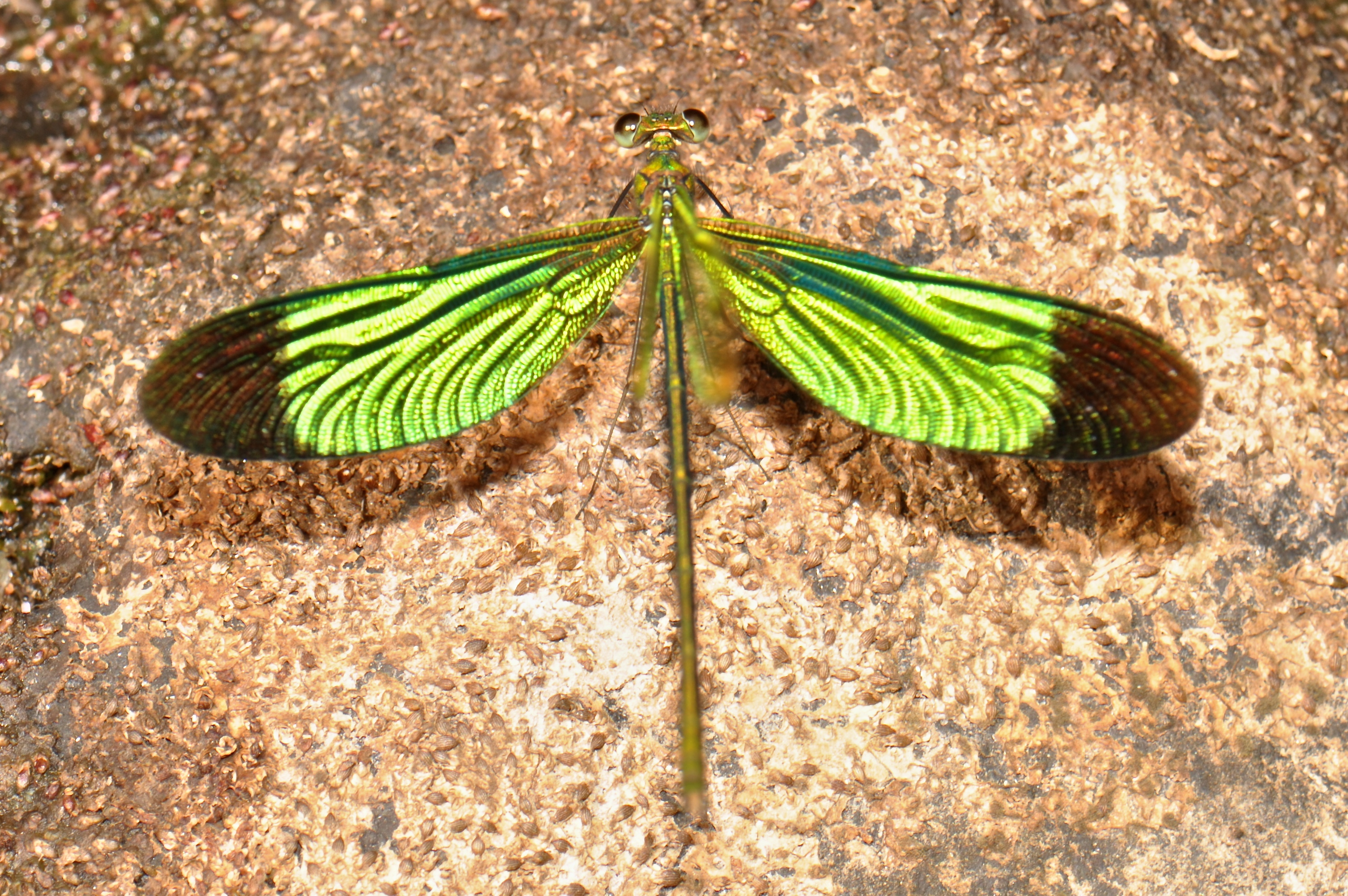 Thanks to Damian Keith for ID